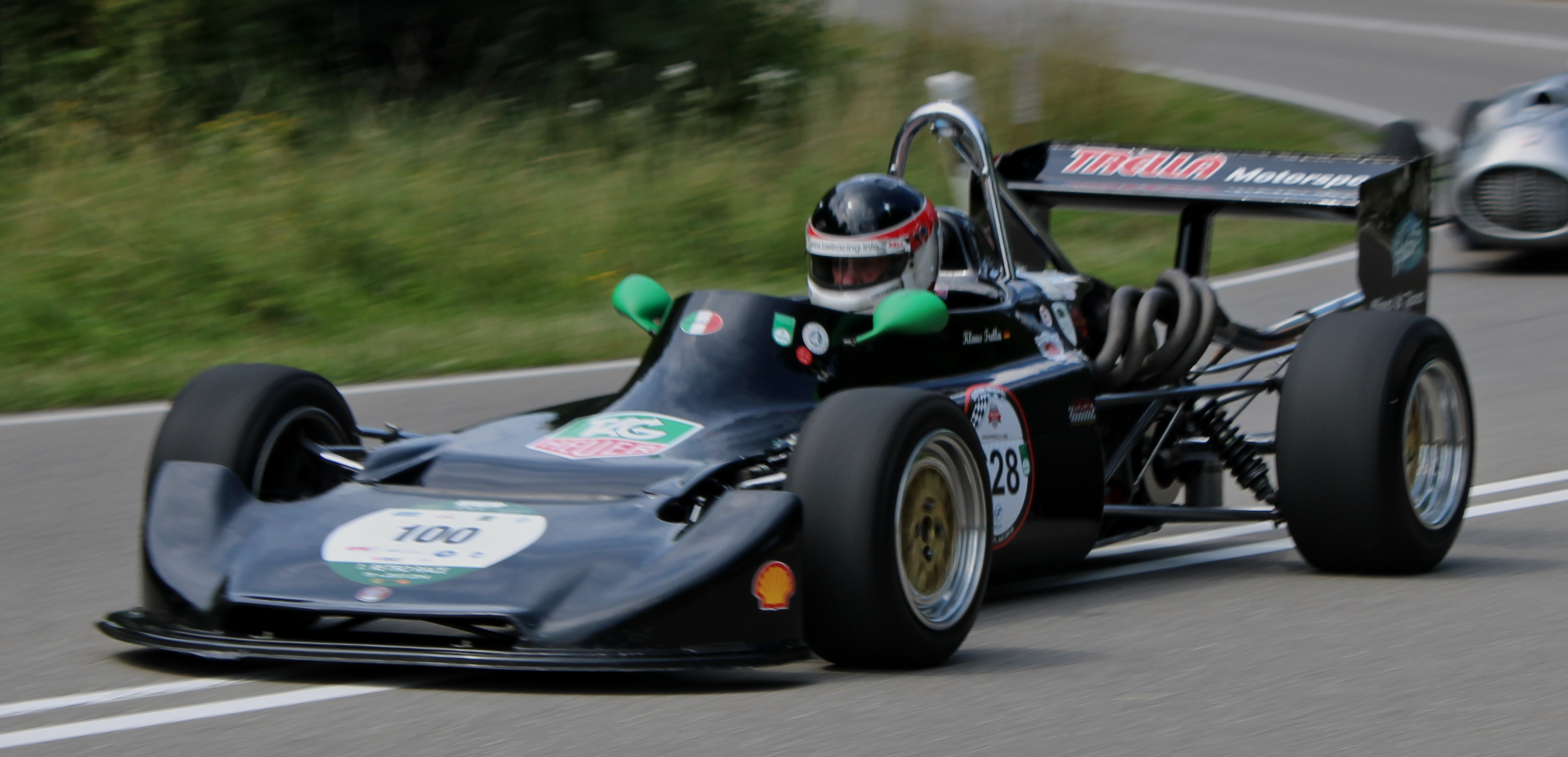 GRD Toyota Formel 3 at Solitude Revival 2019